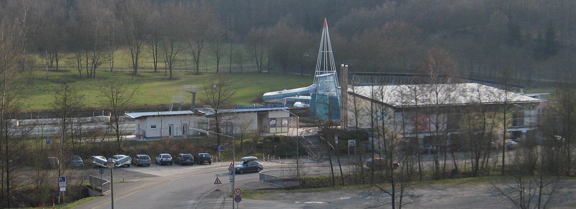 The swimbath in Salchendorf / Germany